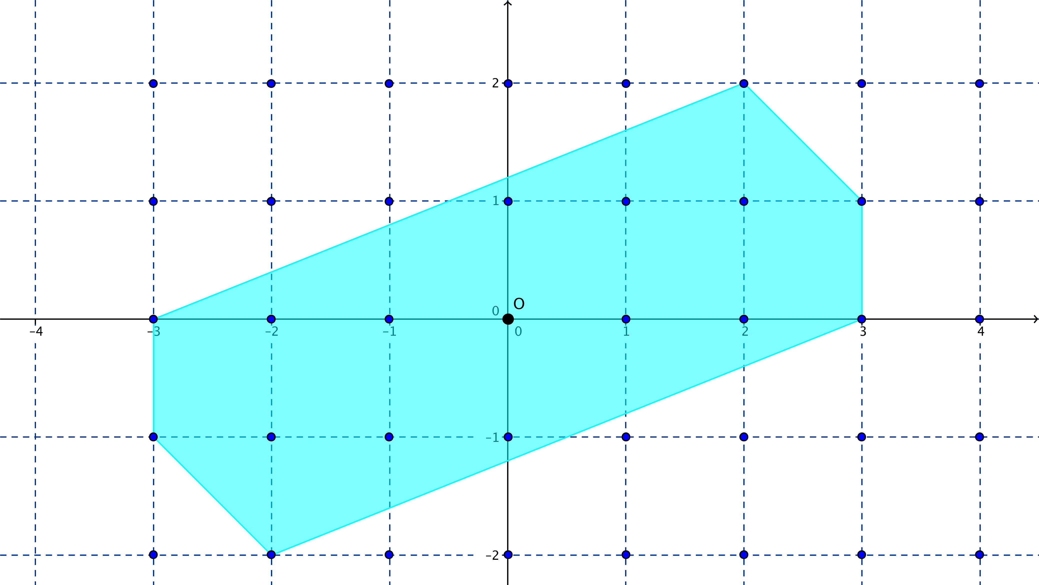 Example of a convex set satisfying the assumptions of Minkowski's First Theorem